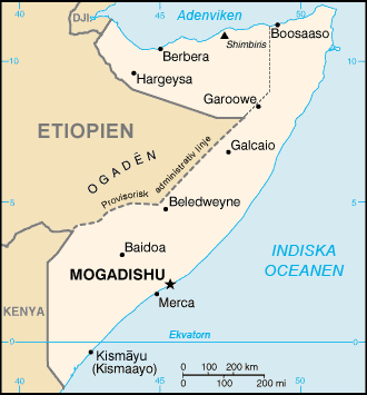 Map of Somalia, showing the capital Mogadishu. Credits Adopted from the CIA map [1] by adding the boundary of the self-proclaimed but internationally unrecognized Somaliland. Taken from Wiki En (uploaded by User:Ahoerstemeier)